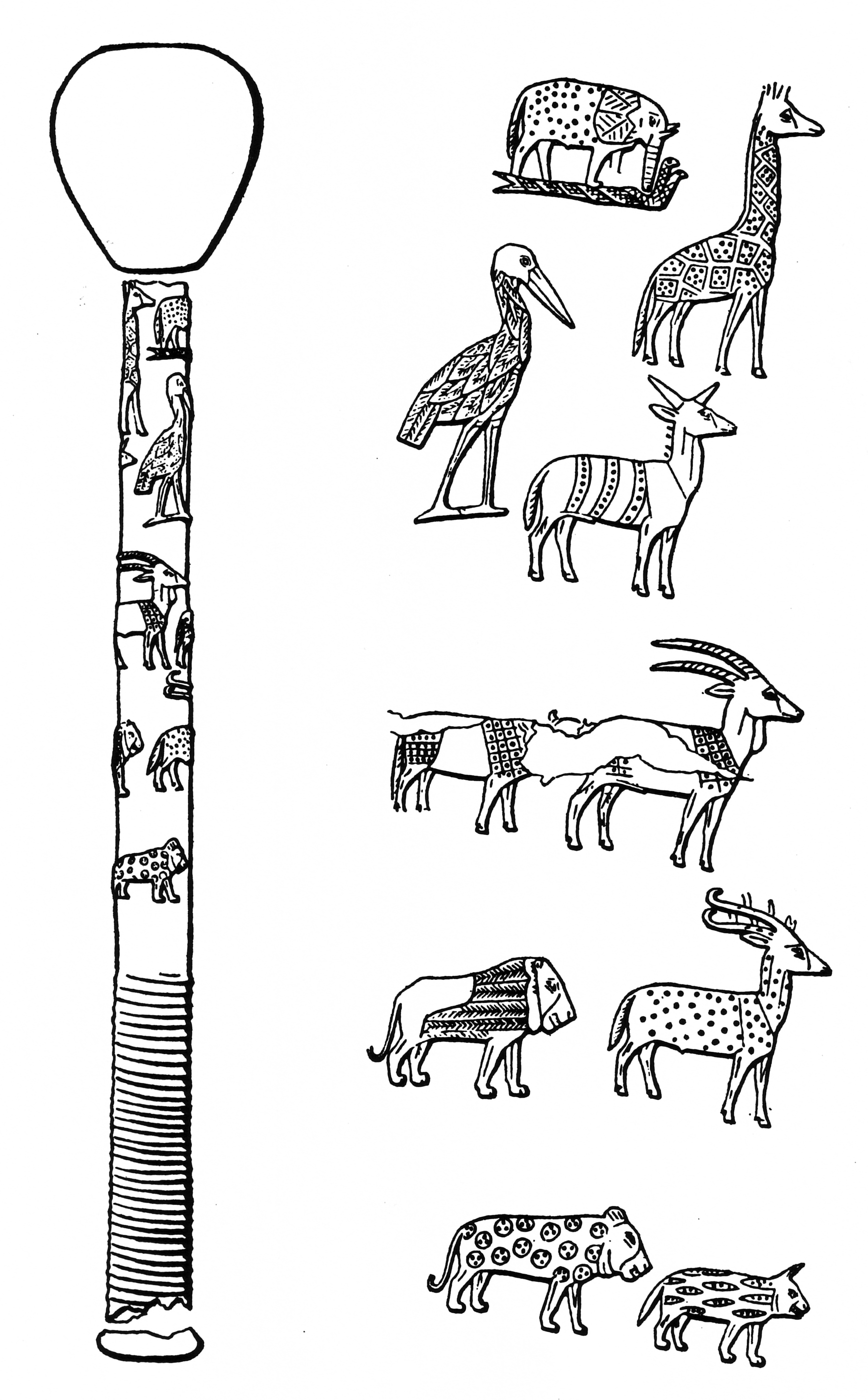 Drawing of the Sayala mace